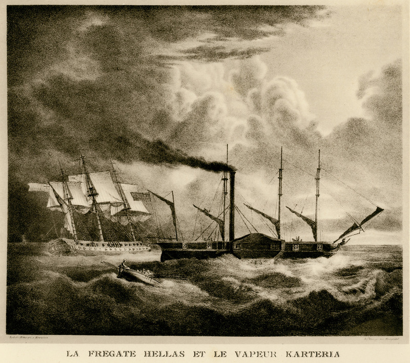 La fregate Hellas et le vapeur Carteria